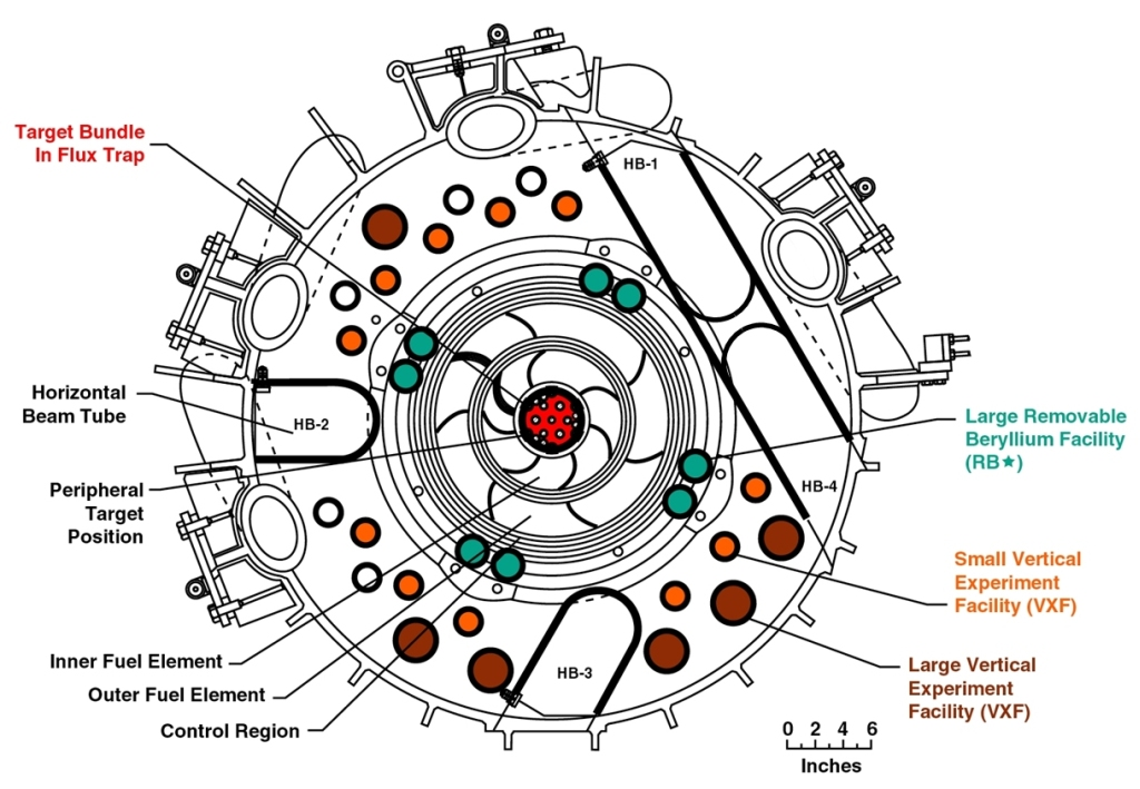 High Flux Isotope Reactor Core Cross Section